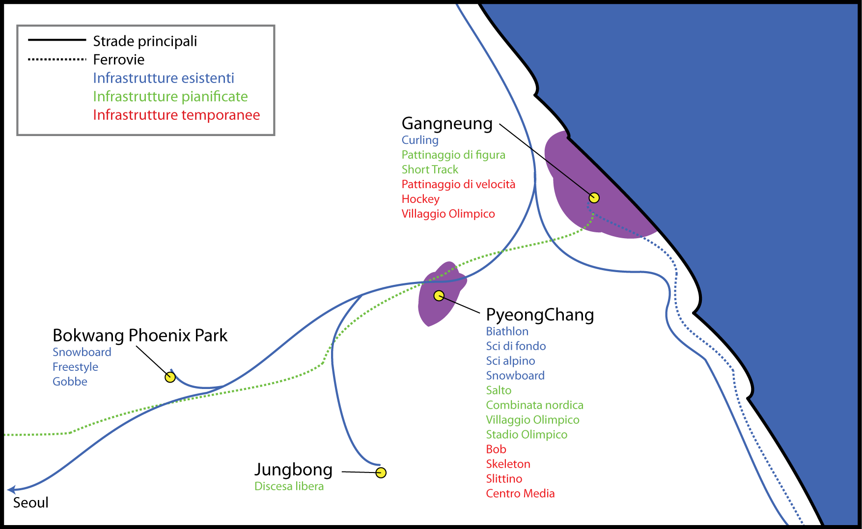 map of pyeongchang winter olympics 2014 proposal site